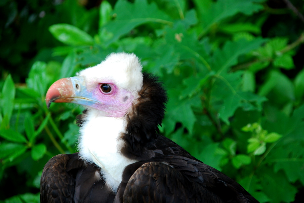 A White-headed Vulture at a bird show held in the castle gardens at Kasteeltuinen Arcen, Netherlands.